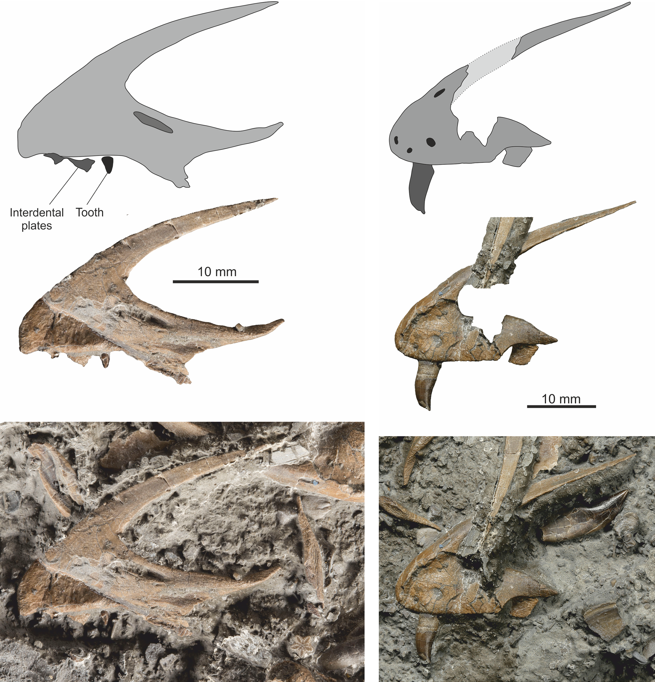 Details of Dracoraptor hanigani holotype skeleton National Museum Wales (NMW) 2015.5G.1–2015.5G.11. Left: Right premaxilla in medial view. Top, simplified outline diagram highlighting the position of an elongate sub-narial vacuity. Middle, the premaxilla with matrix digitally removed. Bottom, premaxilla in situ. Right: Left premaxilla with tooth in lateral view. Top, simplified outline diagram highlighting a series of? sensory openings at the tip of the element. Middle, the premaxilla and tooth with matrix digitally removed. Bottom, premaxilla in situ.